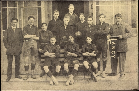 Photo of Chateau de Lancy Sport Team in the year 1853